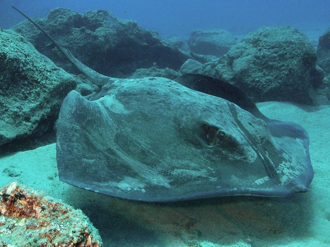 Dasyatis centroura - Roughtail Stingray / Chucho de clavos / Pastenague épineuse, Tenerife.